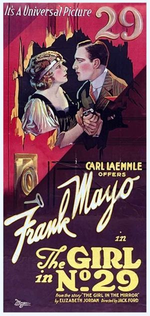 Poster for The Girl in Number 29, directed by John Ford (1920), with Frank Mayo and Claire Anderson.